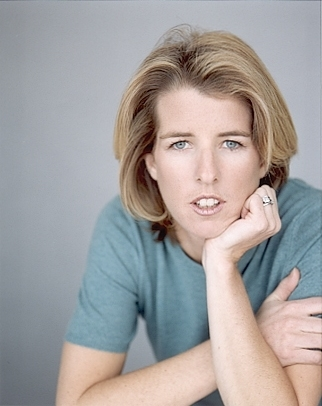 Rory Kennedy, American documentary filmmaker